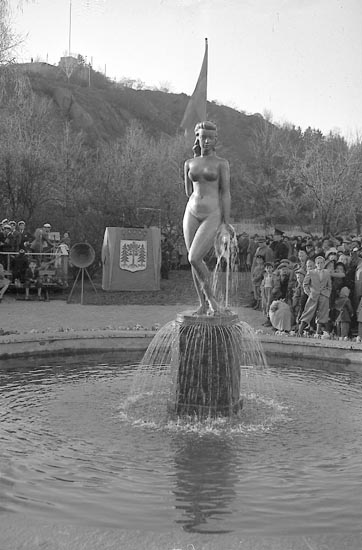 Statue "Girl with braids" in Uddevalla, Sweden